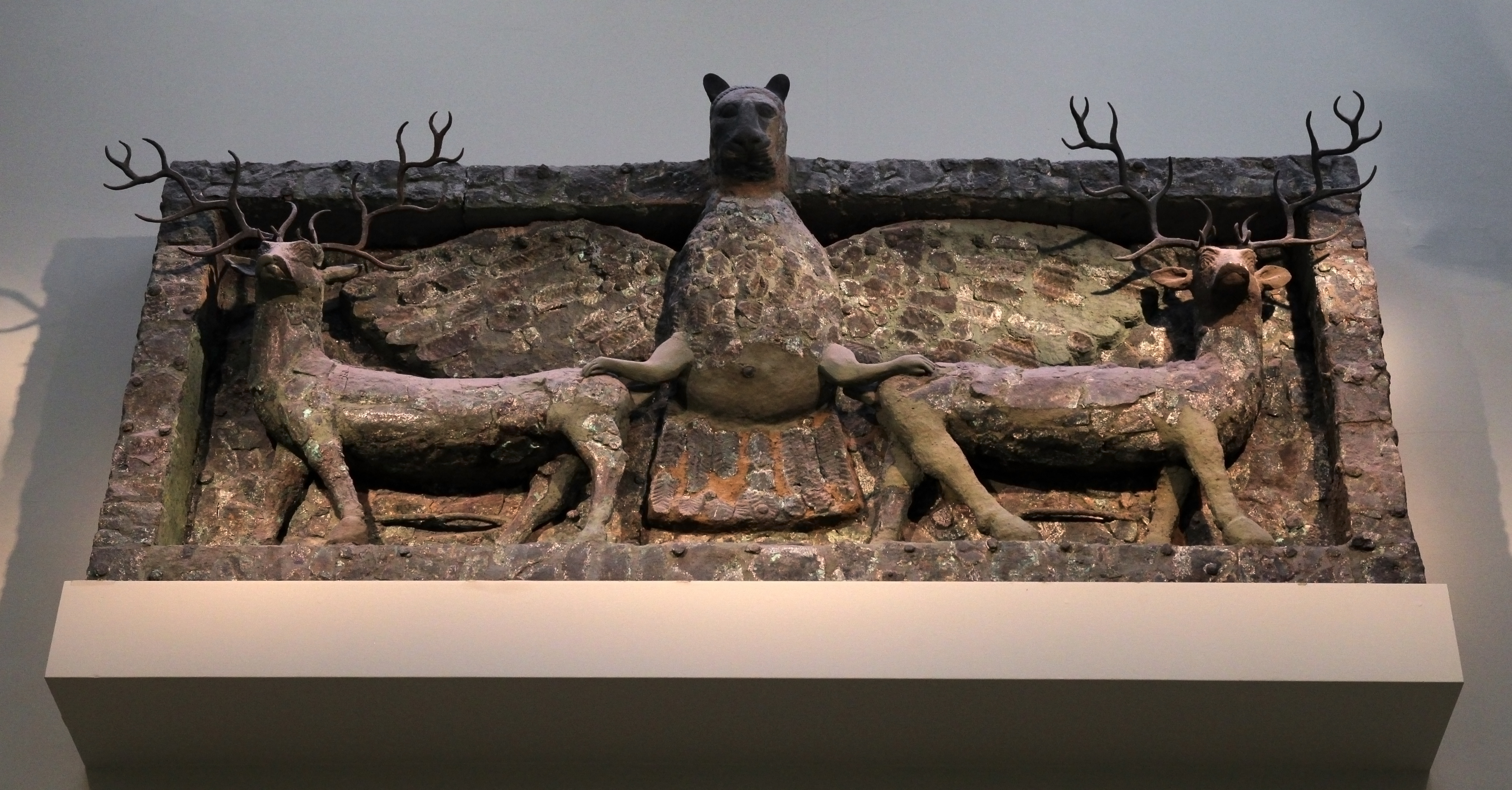 This lion-headed eagle (Imdugud or Anzu) is the Sumerian symbol of the God Ningirsu. In this panel, Anzu appears to grasp two deers, simultaneously. The panel was found at the base of the temple of Goddess Ninhursag at Tell- Al-Ubaid. From southern Mesopotamia (Iraq), early dynastic period, circa 2500 BCE. ME 114308, British Museum, London.